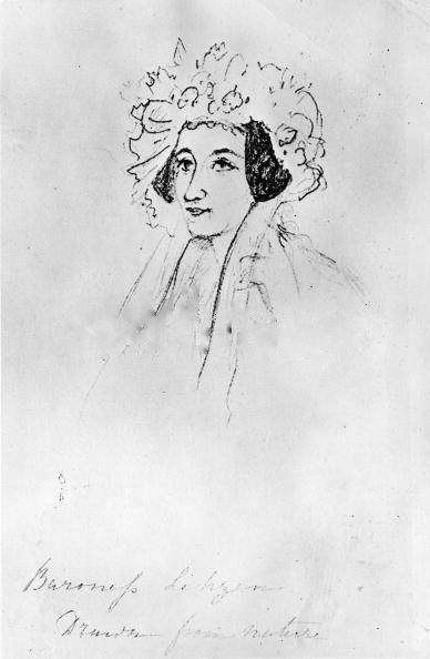 Drawing of Baroness Louise Lehzen (1784-1870), governess of Queen Victoria of the United Kingdom. Drawn from life by the Queen, before her accession to the throne.